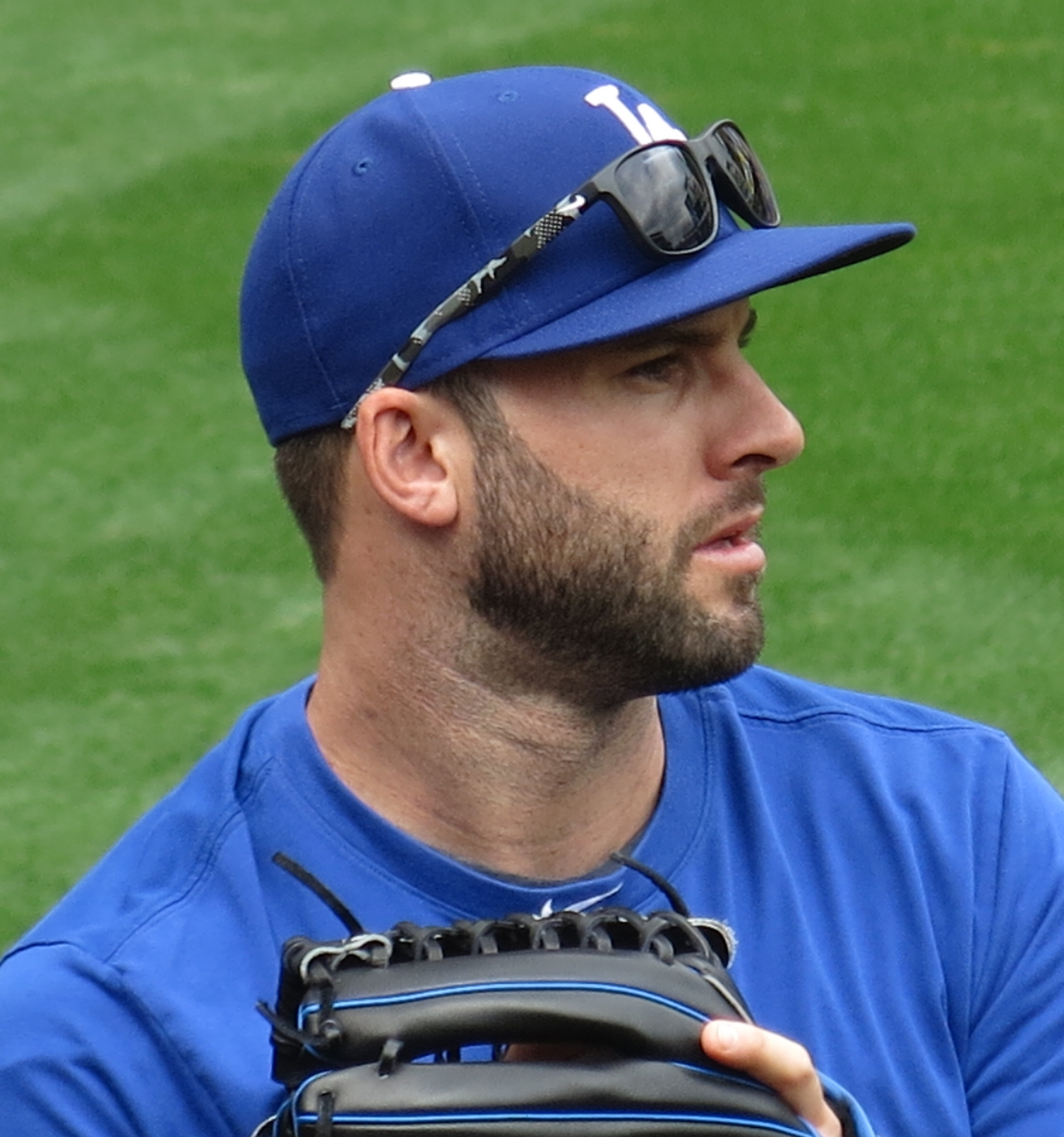 Brandon Morrow on August 5, 2017